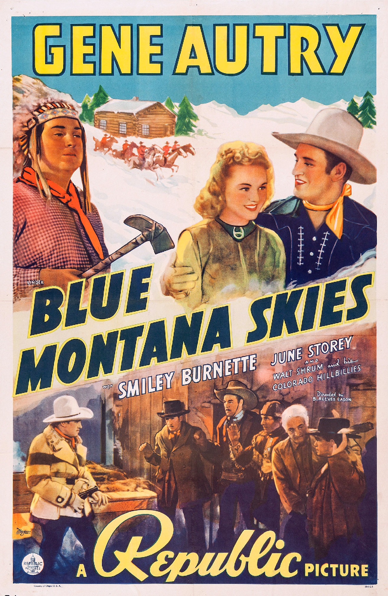 Poster for the 1939 film Blue Montana Skies. The item has no copyright markings on it as can be seen in the links above. At bottom left is Country of origin USA; at bottom right is 16021. The logos at lower left are of Republic Pictures and the Morgan Litho Corp, Cleveland, O, who printed the poster.